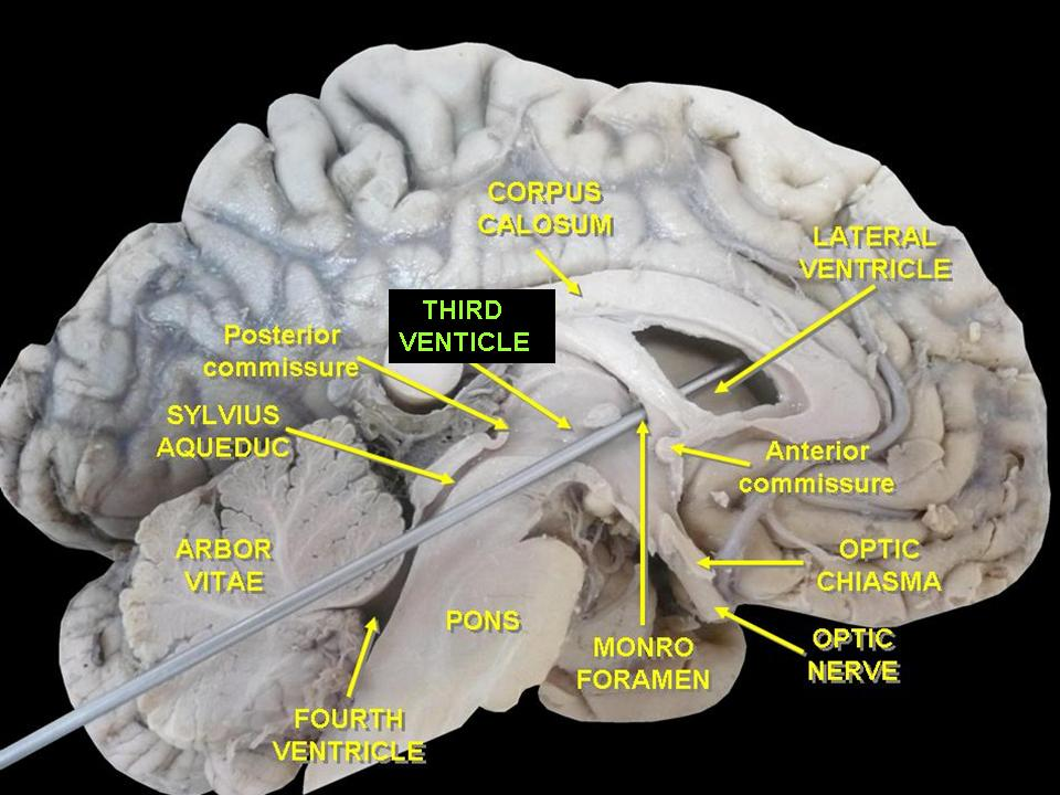 Anatomical dissections